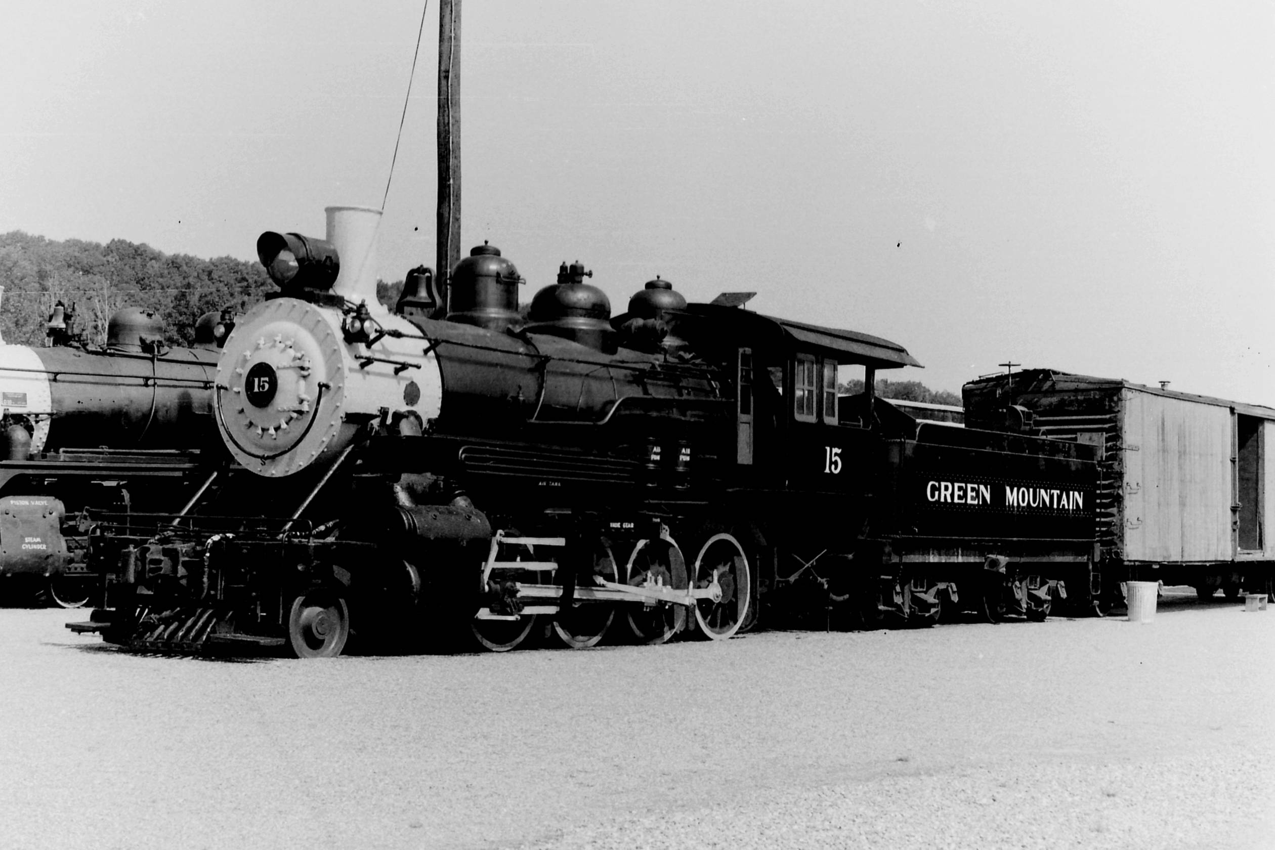 Green Mountain R.R. (ex-Monadnock Northern R.R; ex-Rahway Valley R.R; Ex-Oneida & Western R.R.) 2-8-0 No.15 "Faithful Fifteen" (Baldwin No.43529 of 1916), withdrawn in 1959, at Steamtown, Bellows Falls, Vermont 8/70.